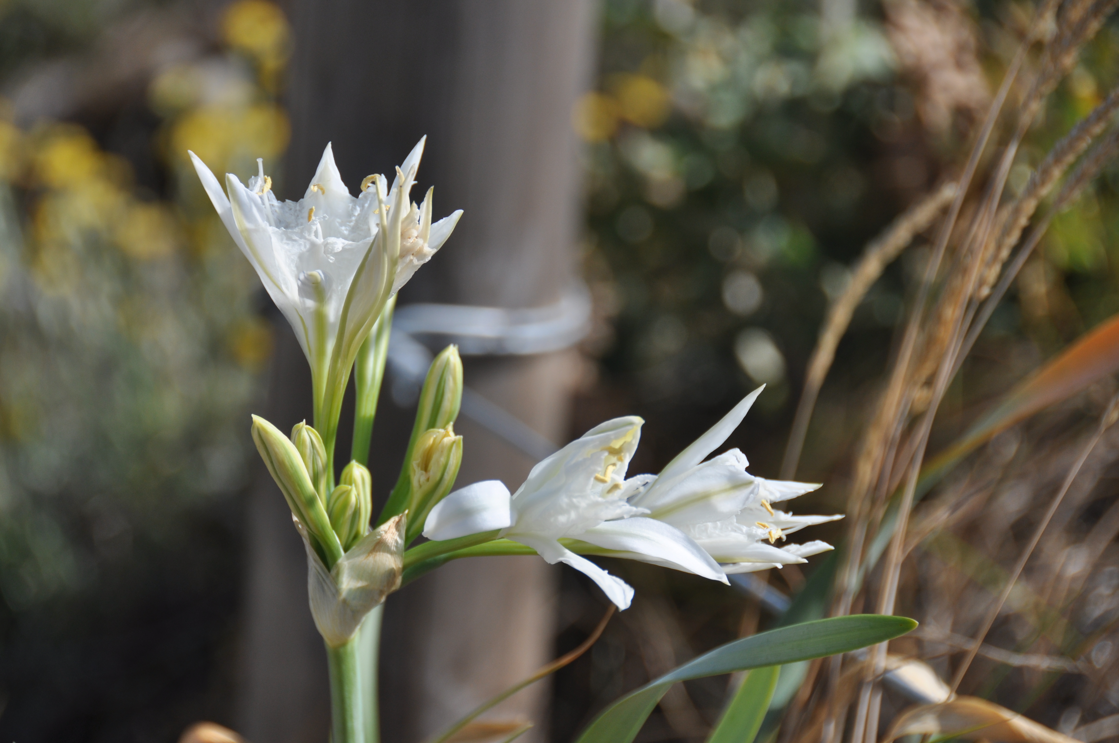 Sea daffodil (Pancratium maritimum) on Houat island.